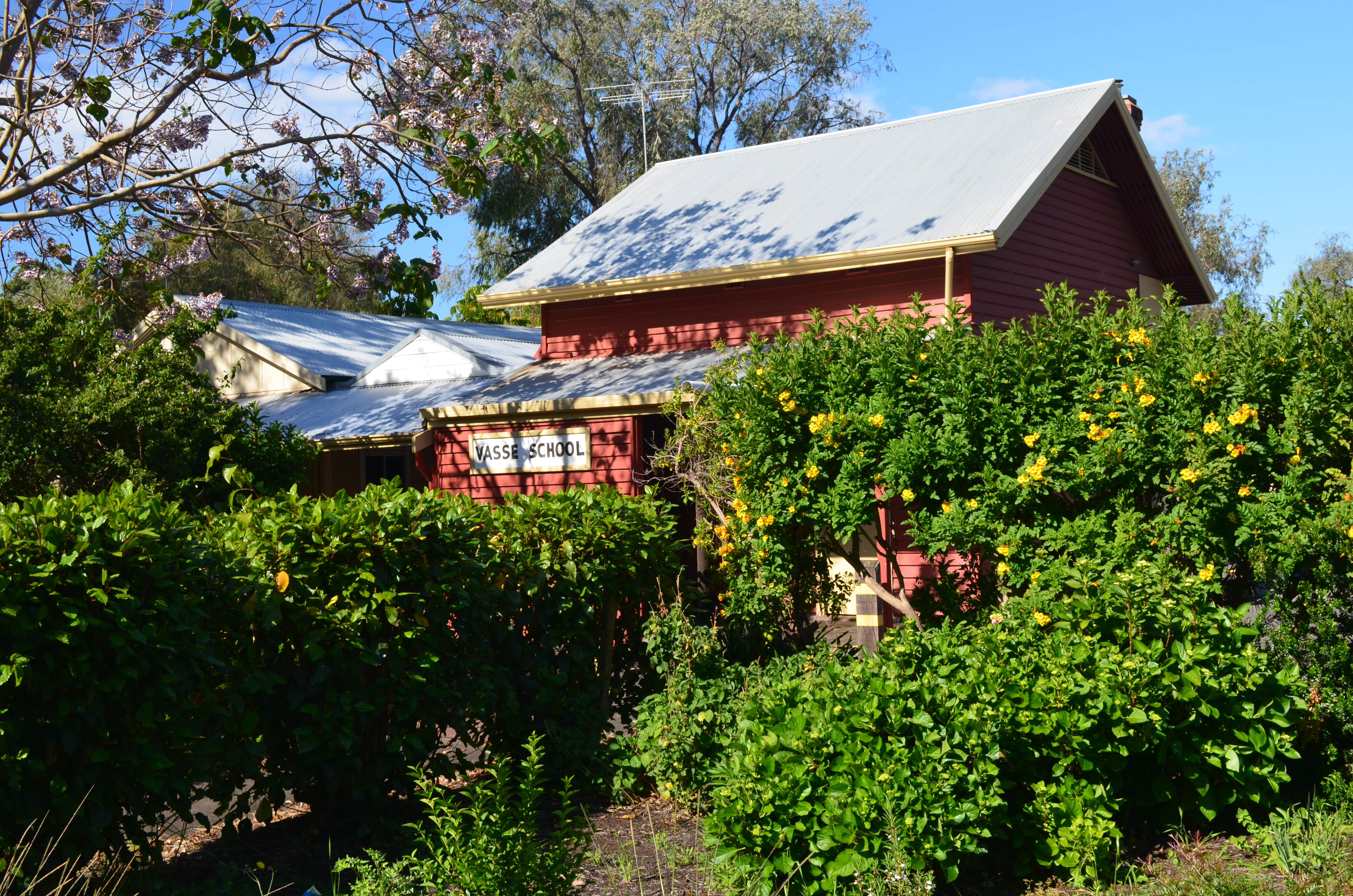 The Old Vasse Primary School Precinct in Vasse, Western Australia, is a surviving example of early Western Australian one room schools.